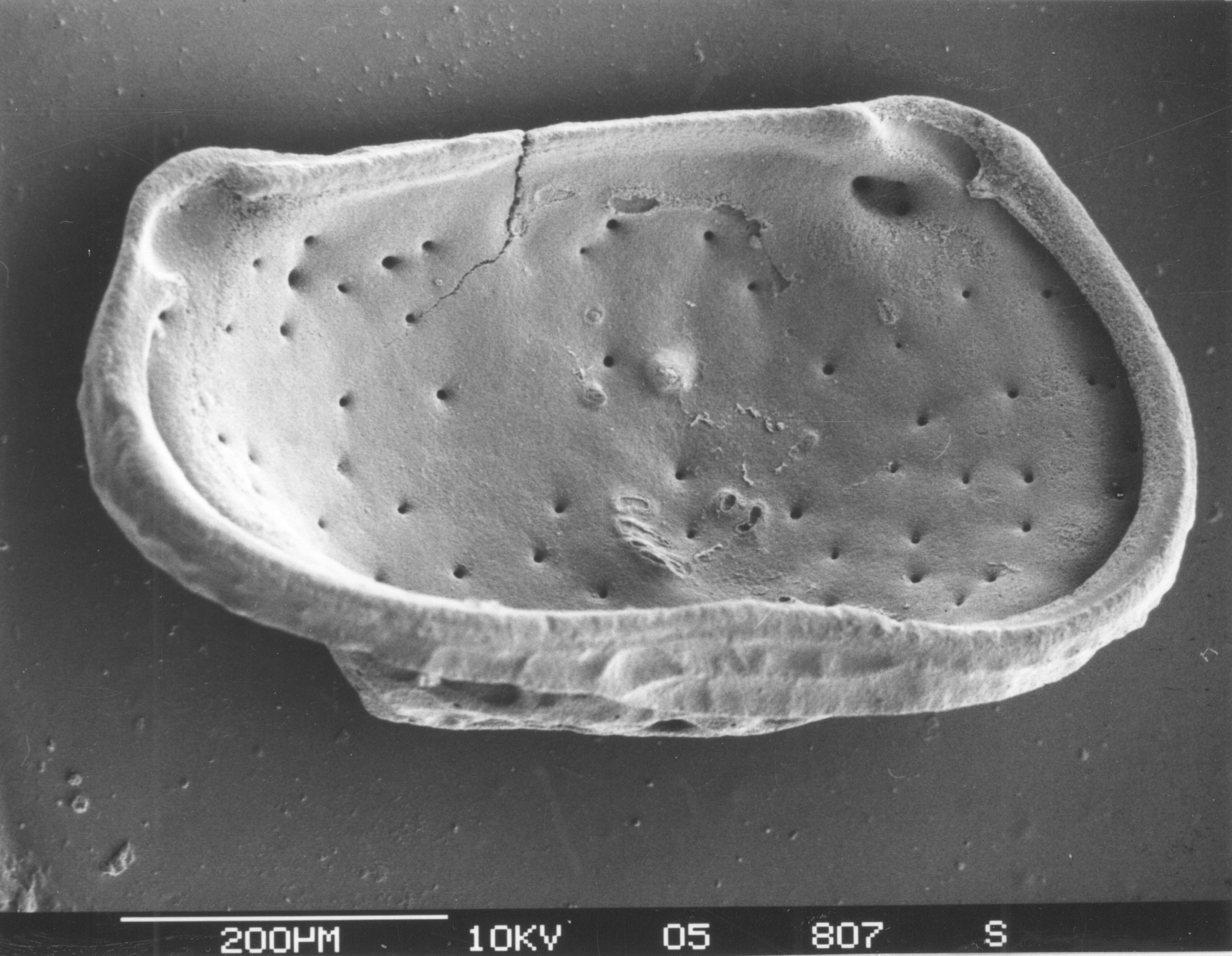 Ostracod shell, inner side